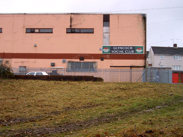 Glyncoch Social Club. Glyncoch is a run down post war estate to the north of Pontypridd